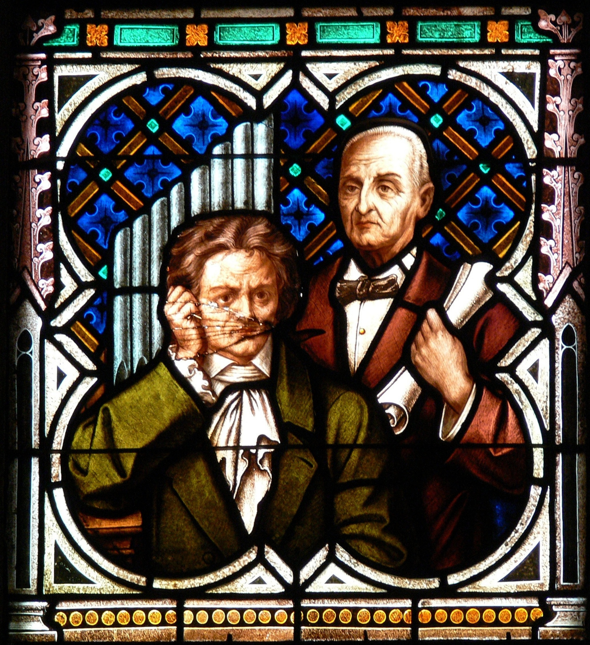 Linz Cathedral ( Upper Austria ). Gothic revival stained glass window ( so called "Window of Linz") showing Ludwig van Beethoven and Anton Bruckner.